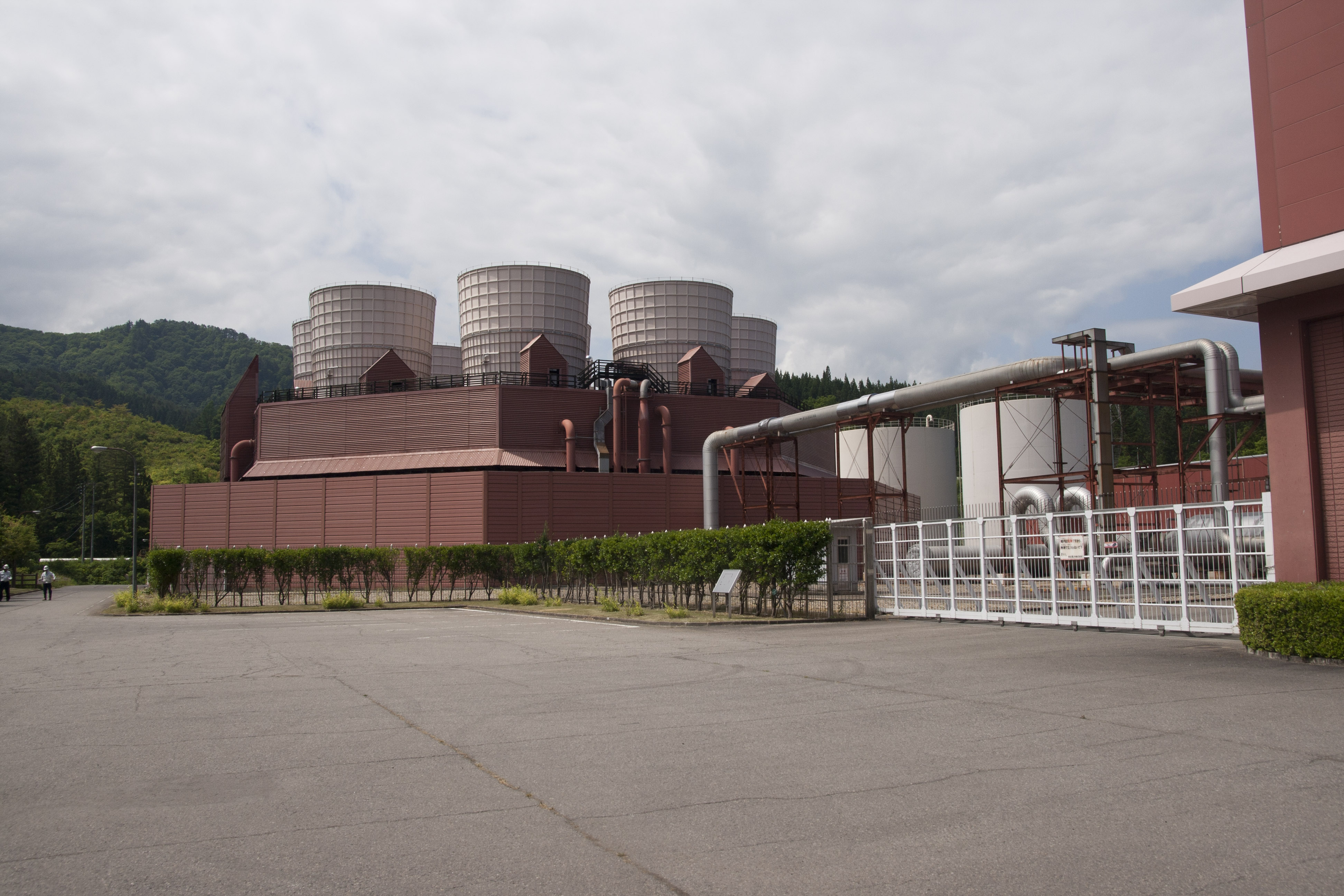 Yanaizu-Nishiyama geothermal power plant, Yanaizu Town, Fukushima Pref., Japan.